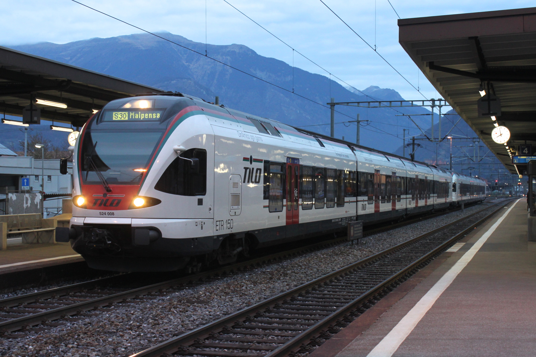 SBB CFF FFS RABe 524 008 and 007 calling at Giubiasco train station while running as S30 14323 from Airolo to Malpensa Aeroporto.